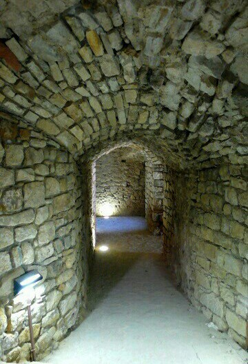 Underground tunnels within Norman Castle in Ariano Irpino, Italy